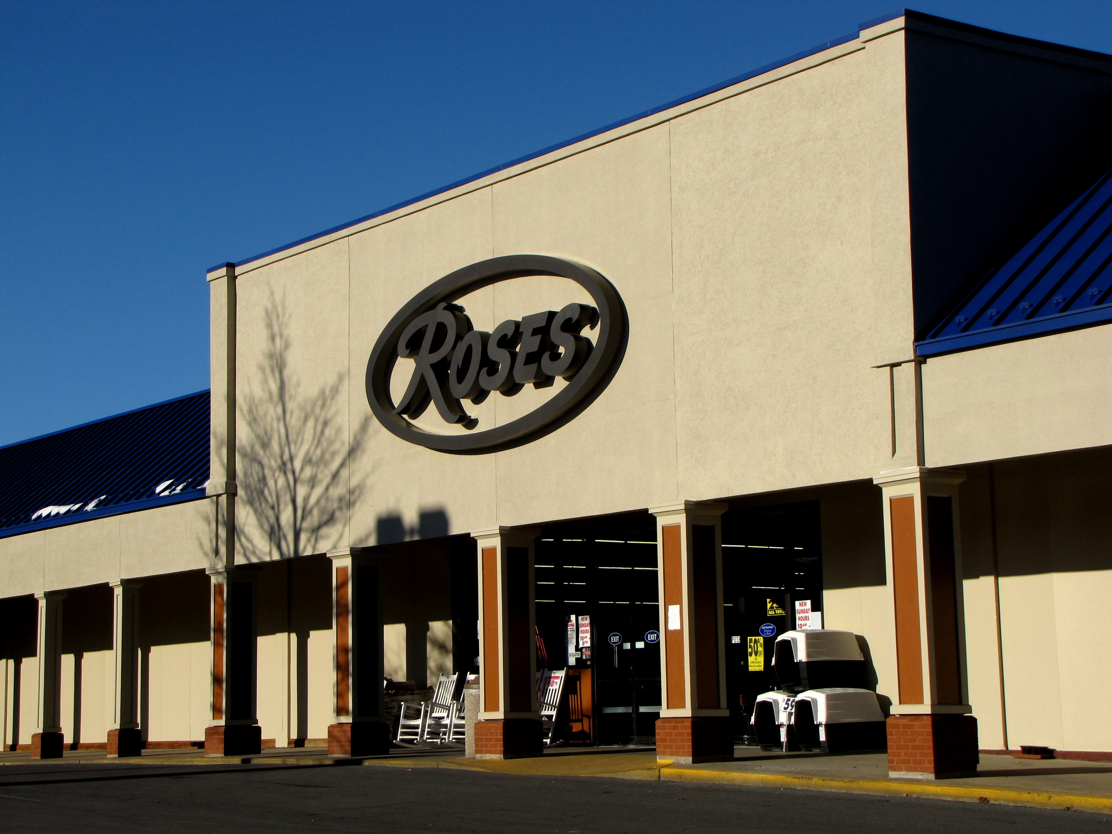 Roses store in Willow Oak Plaza, Waynesboro, Virginia.